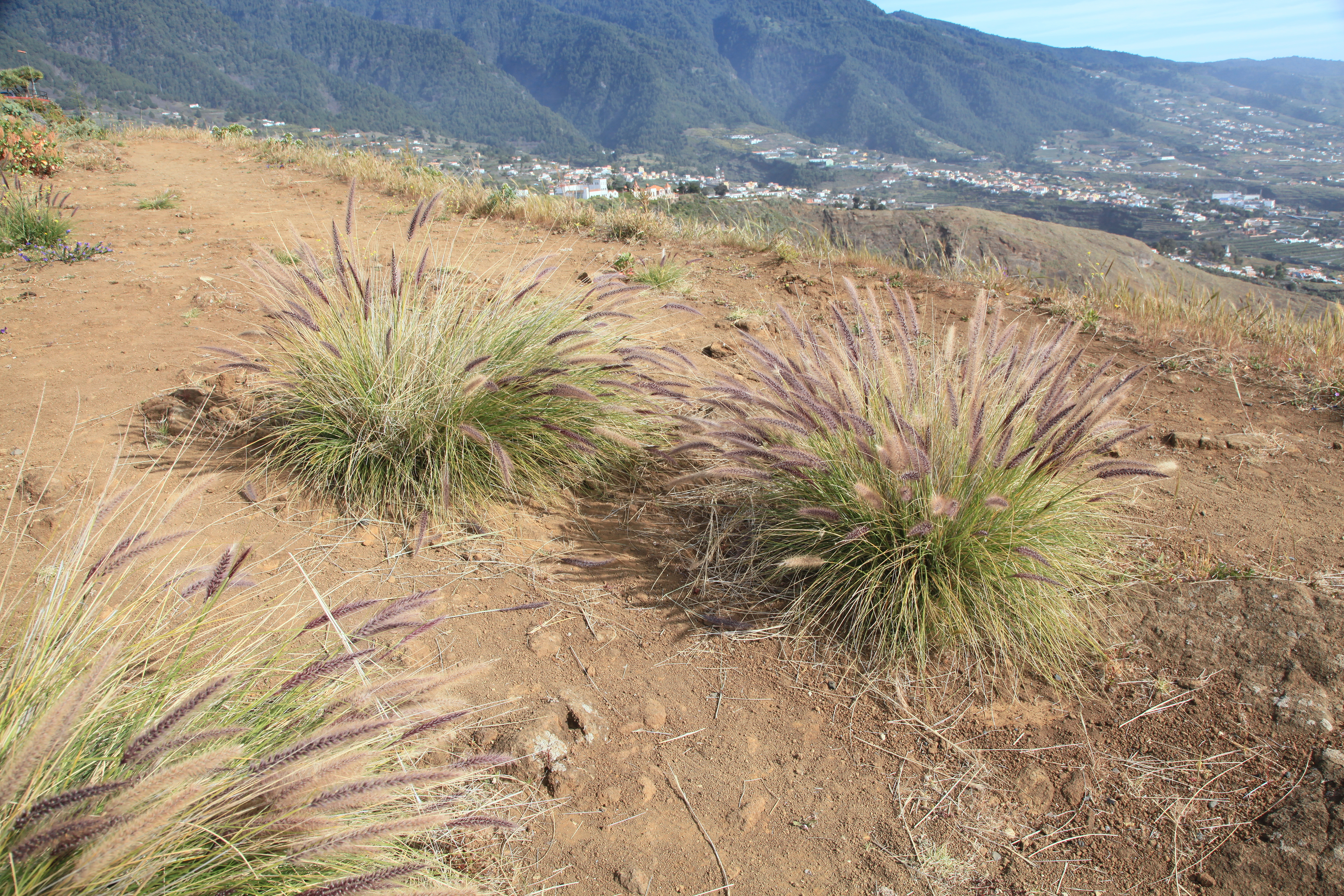 Pennisetum setaceum growing at Subida al Mirador de la Concepción in Breña Alta, La Palma, Canary Island, Spain